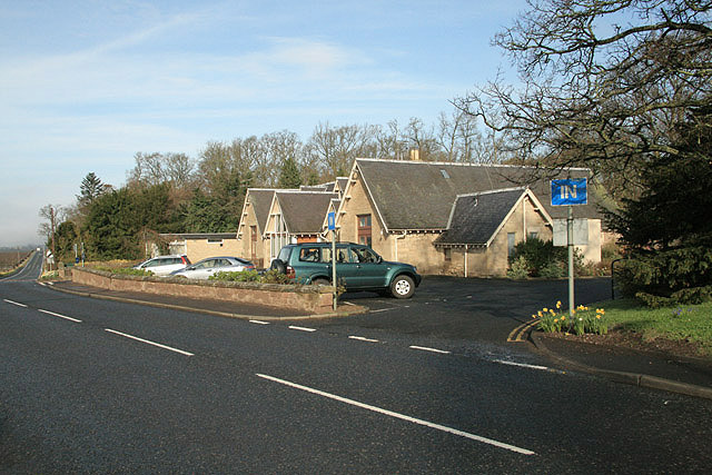 Coldstream Cottage Hospital Viewed from the Kelso Road, the hospital stands on the western outskirts of the town and was built in 1888, with various additions over the years. It was closed in October 2006 but work will commence in May 2008 on reconfiguration works to accommodate a 5 chair dental facility on the ground floor. The 'In-only' entrance will be upgraded to accommodate two-way traffic and the 'Exit-only' opening at the bend in road in the distance, will be blocked off in the interests of road safety. Although the hospital is just within the 30 mph limits, this is a fast section of road and the sightline at this exit to see traffic approaching from the Kelso direction, is very poor.